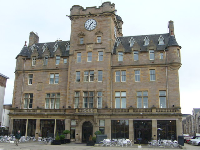 Malmaison Hotel, The Shore Former seamen's mission, built in 1883 and converted to a hotel in 1994.